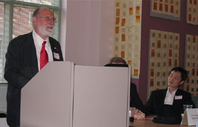 Bill at Norwood Forum